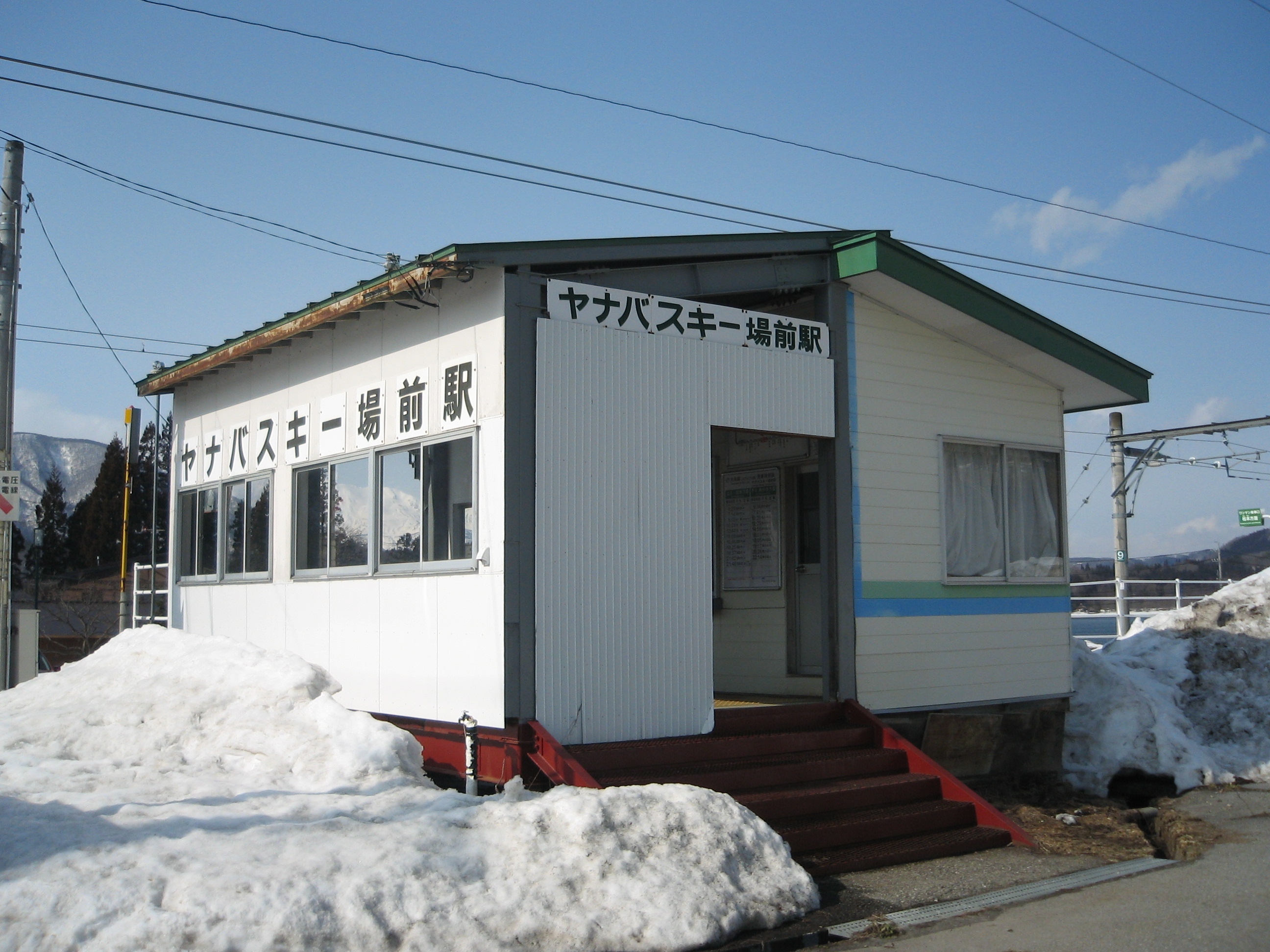 Yanaba Ski-jo-mae Station on Oito Line